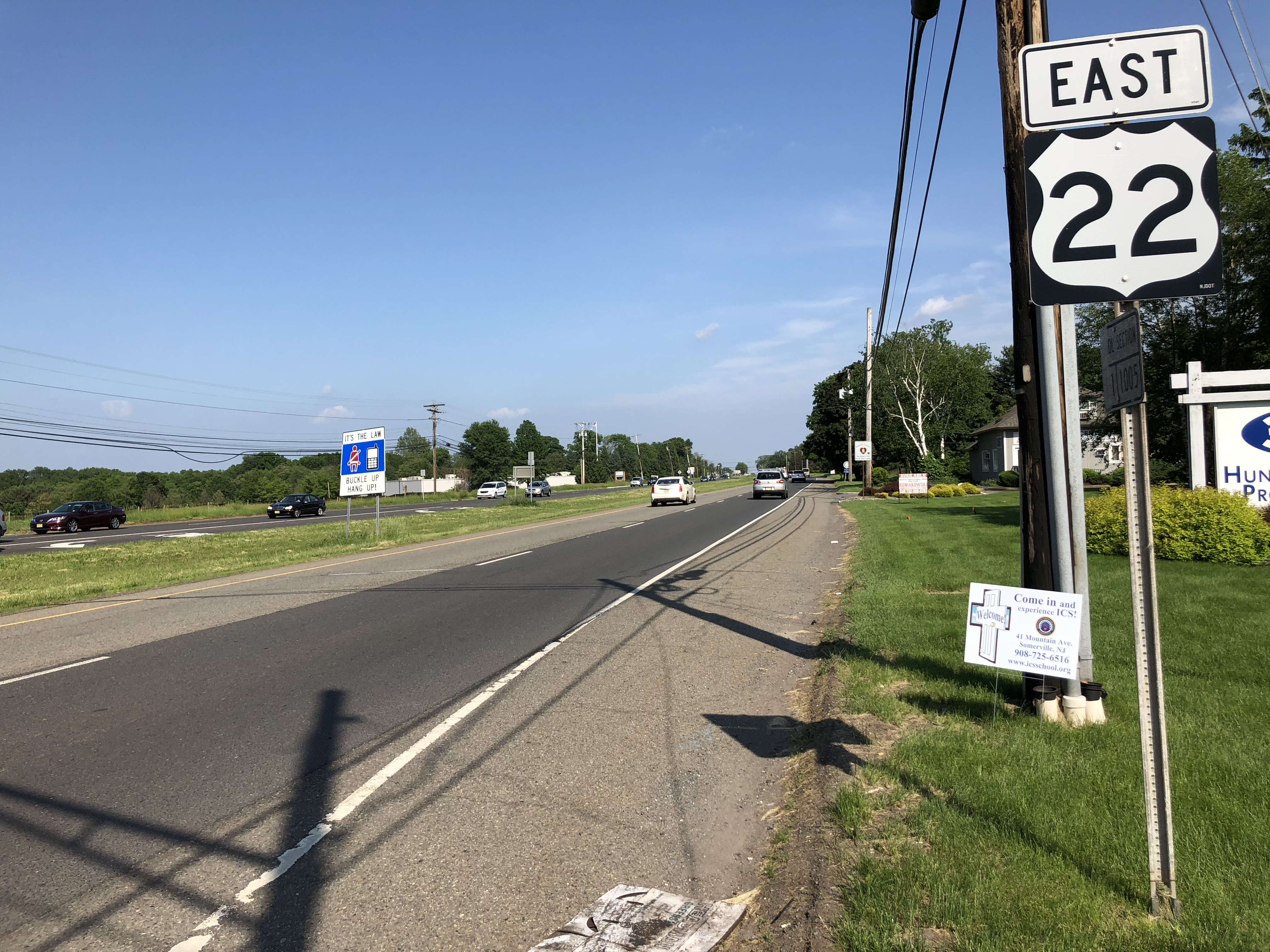 View east along U.S. Route 22 just east of County Line Road in Branchburg Township, Somerset County, New Jersey